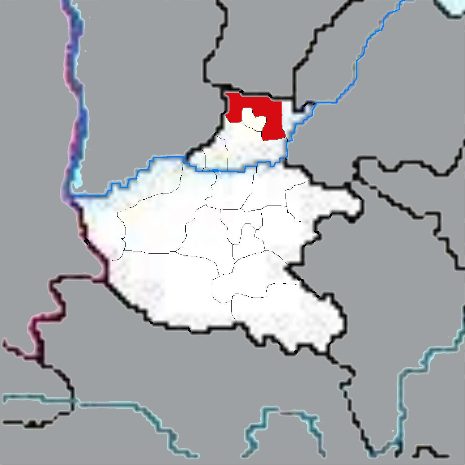 Maps of Henan Province of China